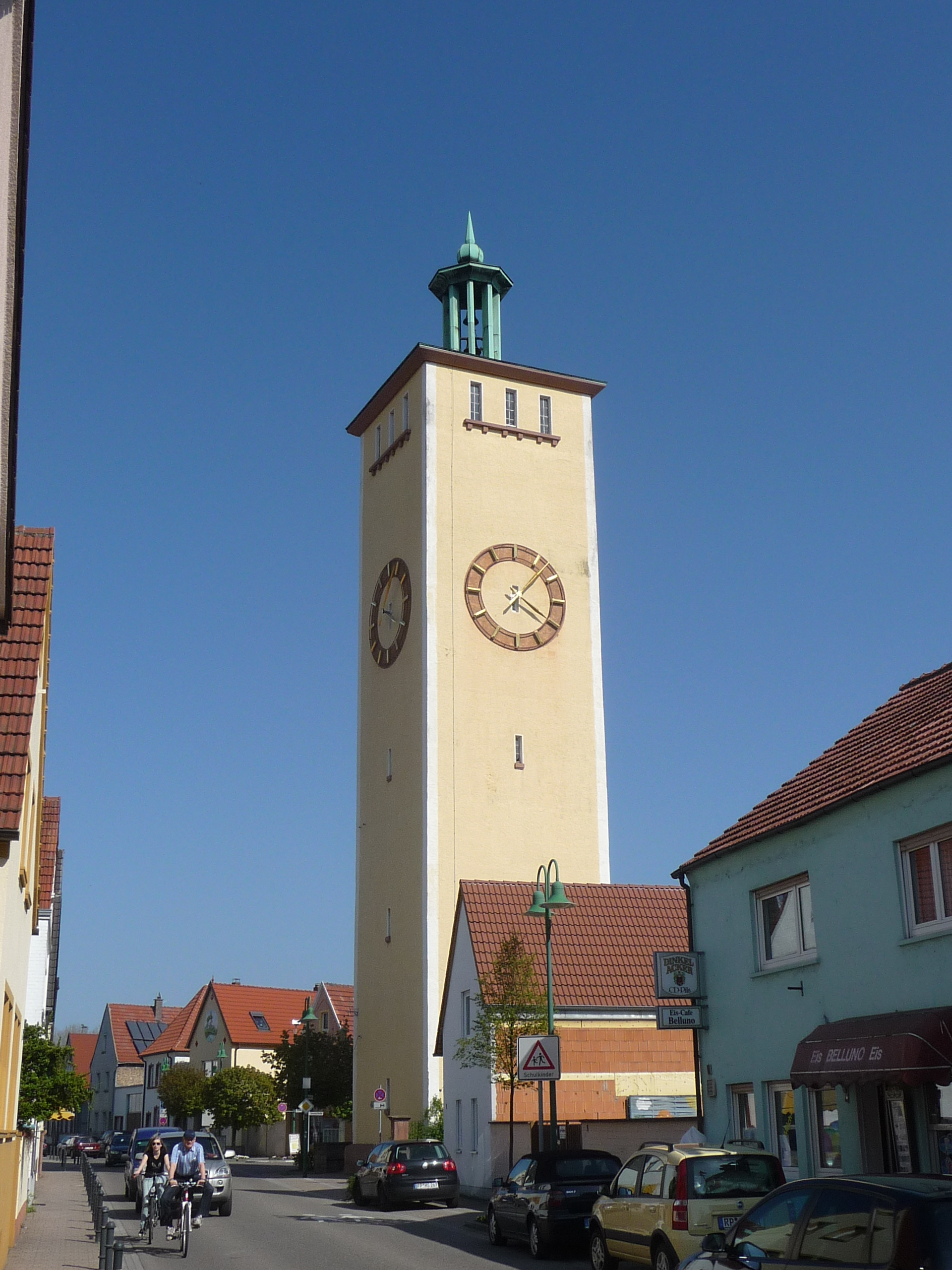 Altrip